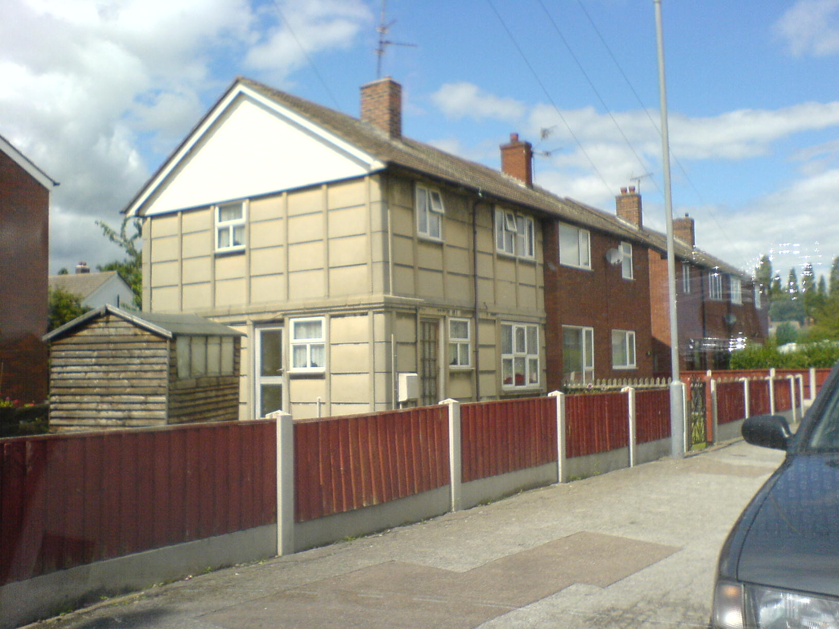 Prefabricated house in Arnold Nottinghamshire